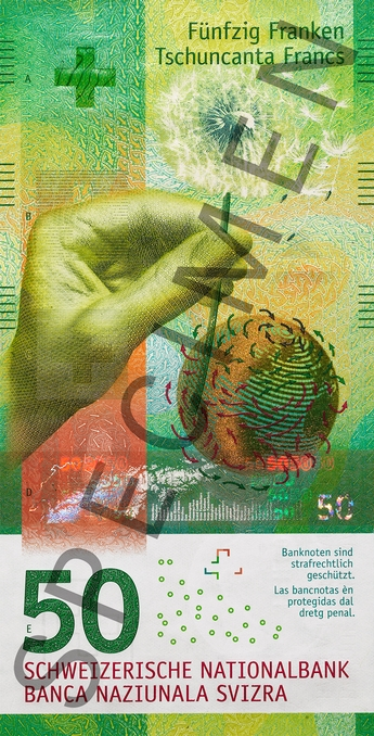 Front of the Swiss 50-franc banknote, ninth series (issued in 2016).